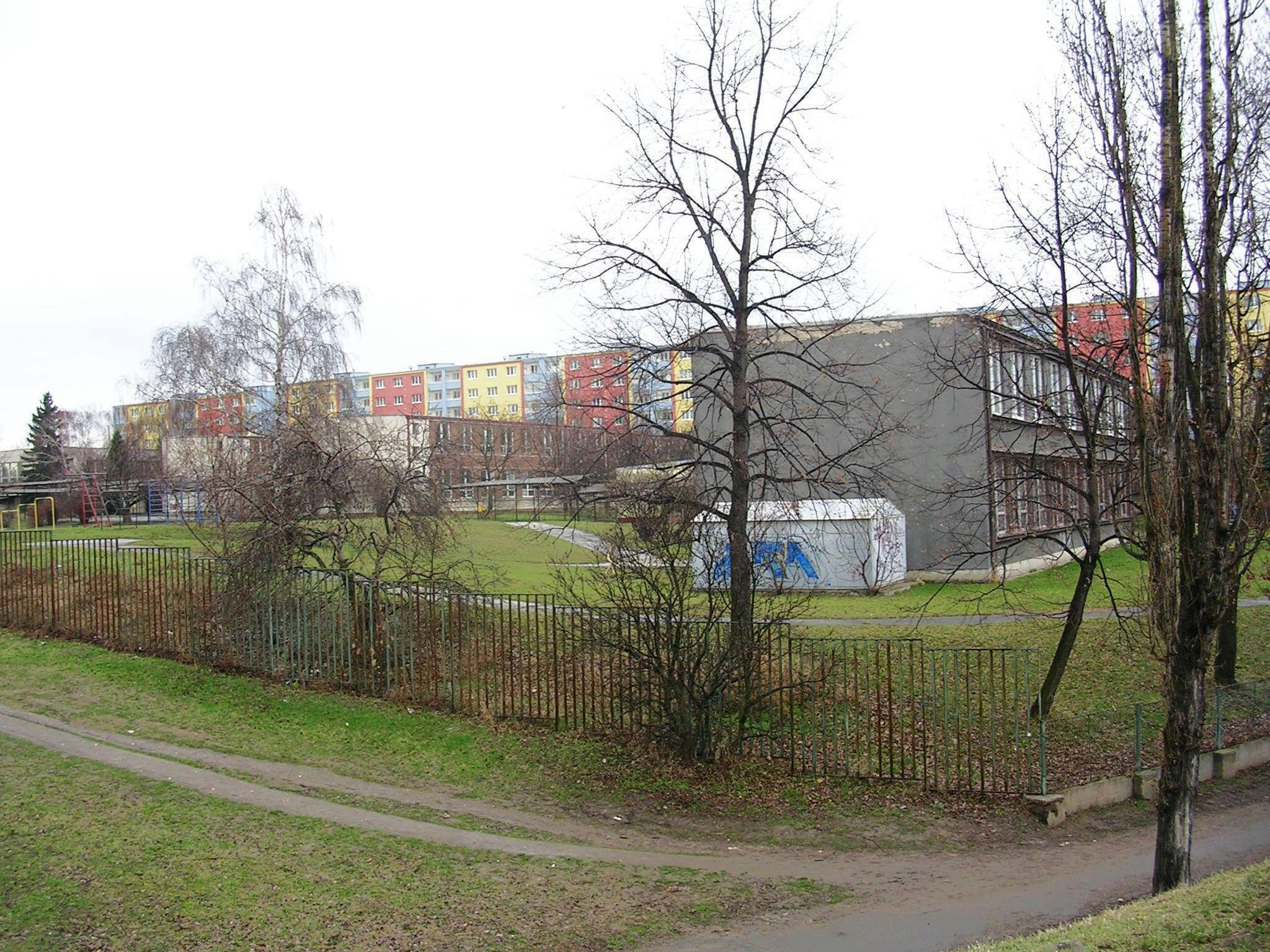 Záběhlice-Zahradní Město, Prague, the Czech Republic.